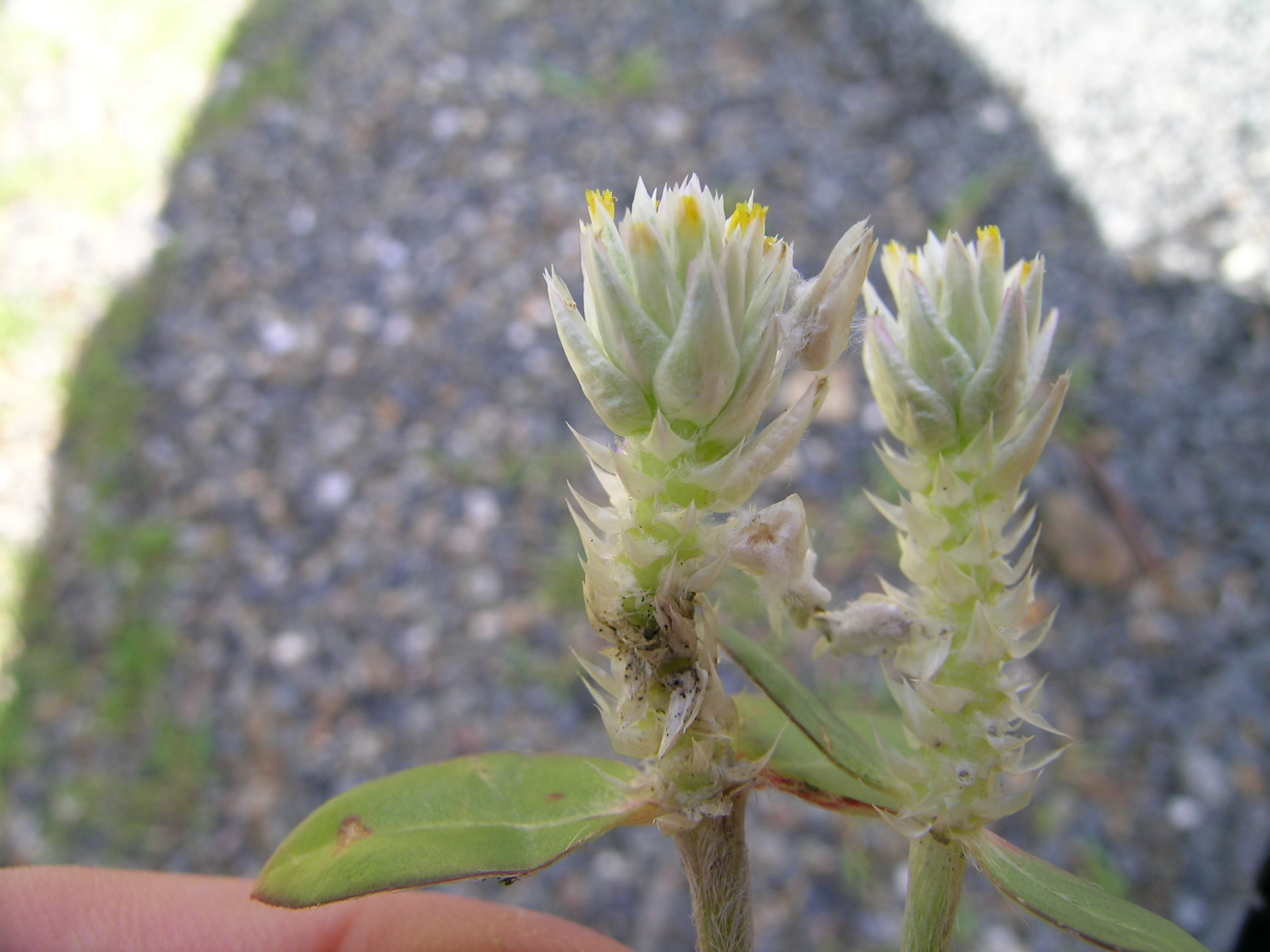 Introduced, warm-season, annual or perennial, prostrate to ascending herb. Stems are pubescent to woolly or hairless and to 25 cm tall. Leaves are opposite, oblong to more or less spathulate and 2–5 cm long; upper surface is sparsely hairy to hairless, lower surface is pubescent to woolly. Flowerheads are 1–4 cm long, 1–1.2 cm wide. Perianth segments are white, shining and papery. A native of America, it is a widespread weed.